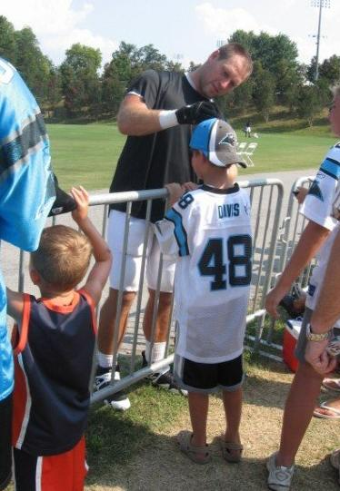 Taken by myself at Carolina Panthers' training camp in Spartanburg, SC on 8/2/2007. Open to public domain.